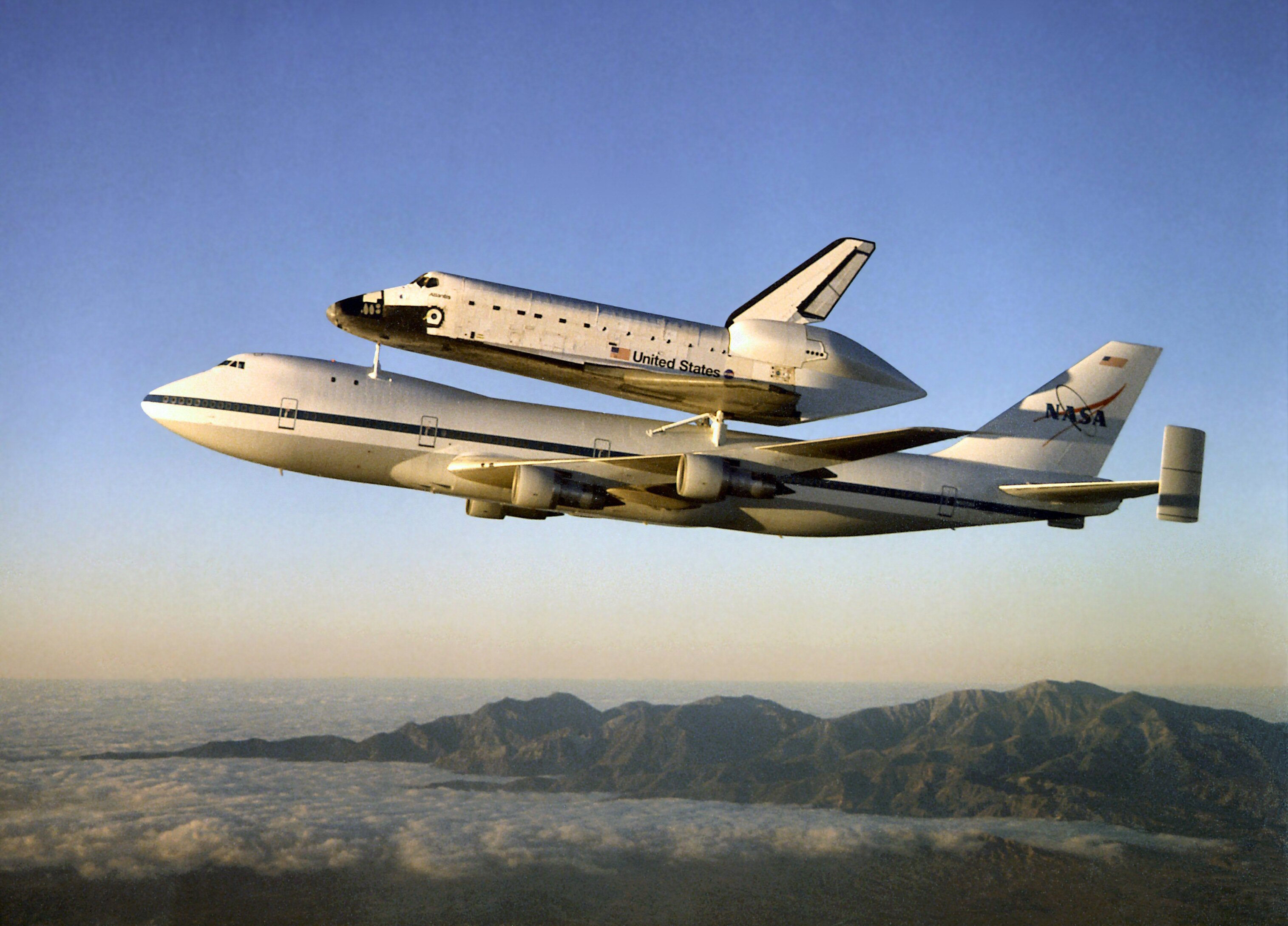 Space Shuttle Atlantis being carried atop the Shuttle Carrier Aircraft.